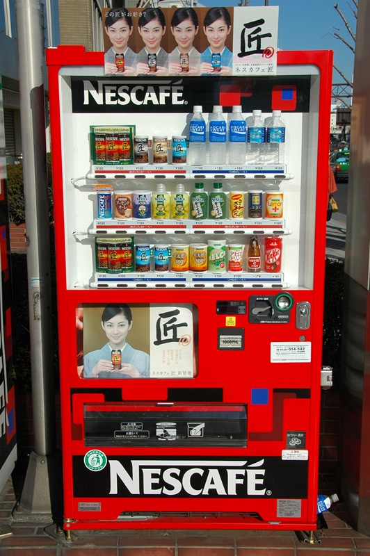 One of thousands and thousands of outdoor vending machines. I never found the oft-rumored machine that dispenses underwear.